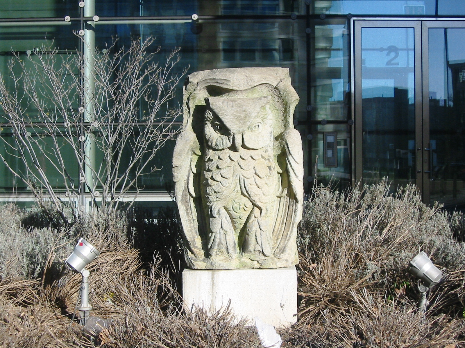 Owl of the “Ullstein-Verlag” house next to the monument "fathers of the unit” before the